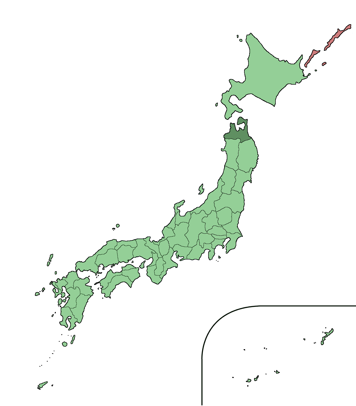 Large size map of Japan with Aomori highlighted, self made but originally based on a japanese mapbook.